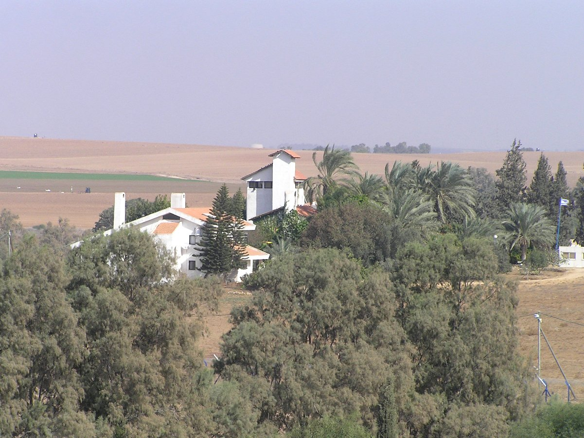 Havat Hashikmim - the ranch of former Israeli prime minister Ariel Sharon